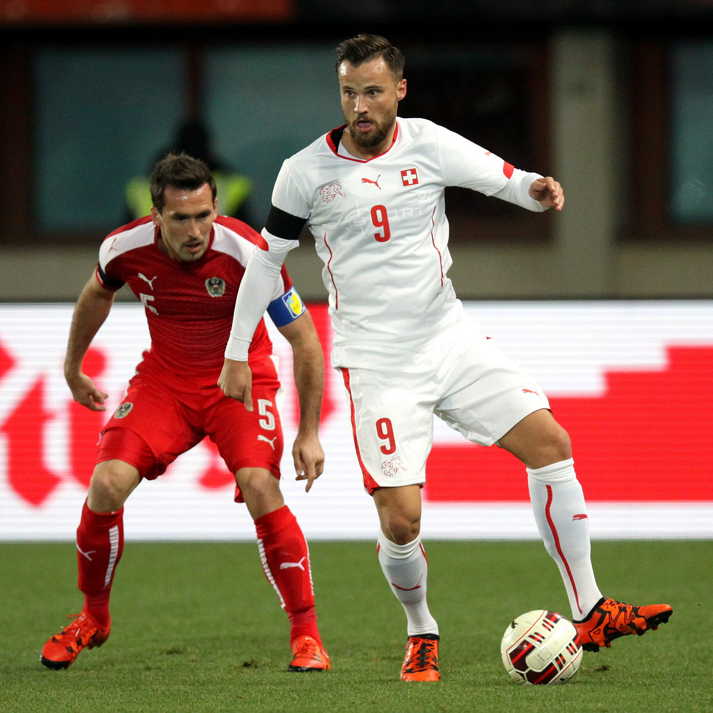 Friendly match – Austria (red shirts) vs. Switzerland (white shirts) 1-2 (1-2) – 2015-11-17 in Vienna, Ernst-Happel-Stadion – The photo shows Haris Seferović (right) and Christian Fuchs (left).